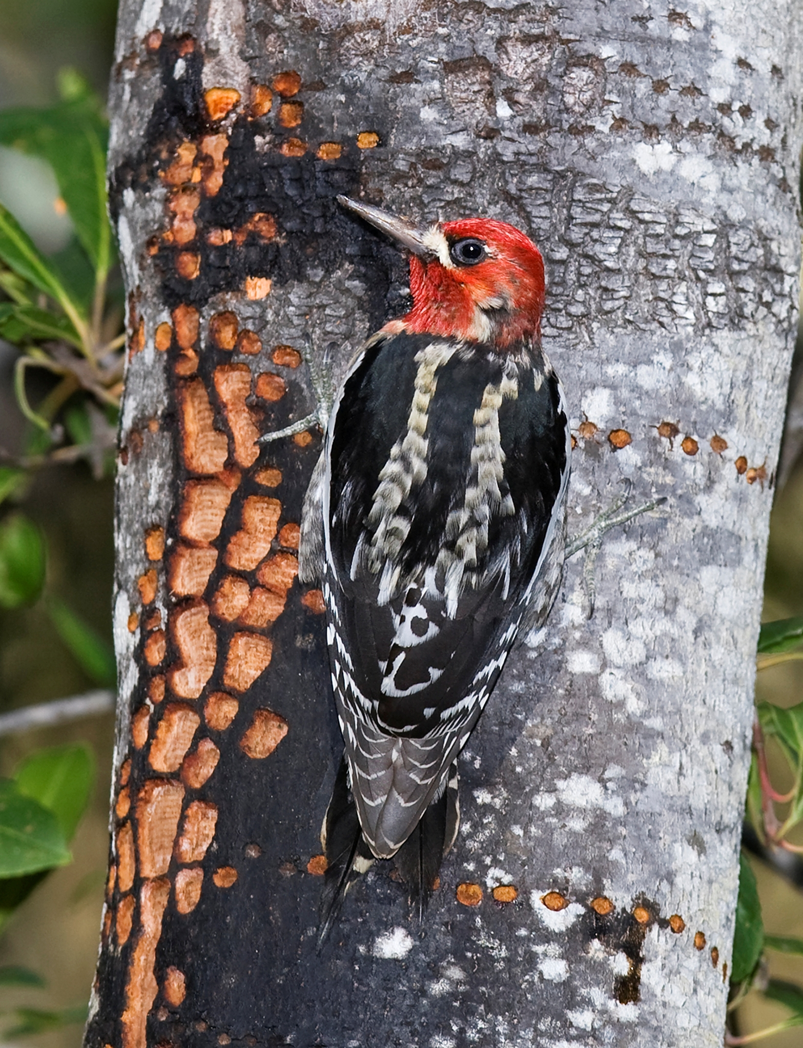 Red-breasted Sapsucker drilling shallow holes holes in the trunk of a Toyon bush, or tree in this case, to eat the tree sap. 1D Mark III w/300 mm f/2.8L + 580 EX II IS in manual mode at 1/2 power from the van with Arthur Morris BLUBB. Subject distance 20 feet. It is interesting that a favorite fruit for the Cedar Waxwing is the Toyon Berries from this bush or tree and the Red-breasted Sapsucker enjoys the sap.